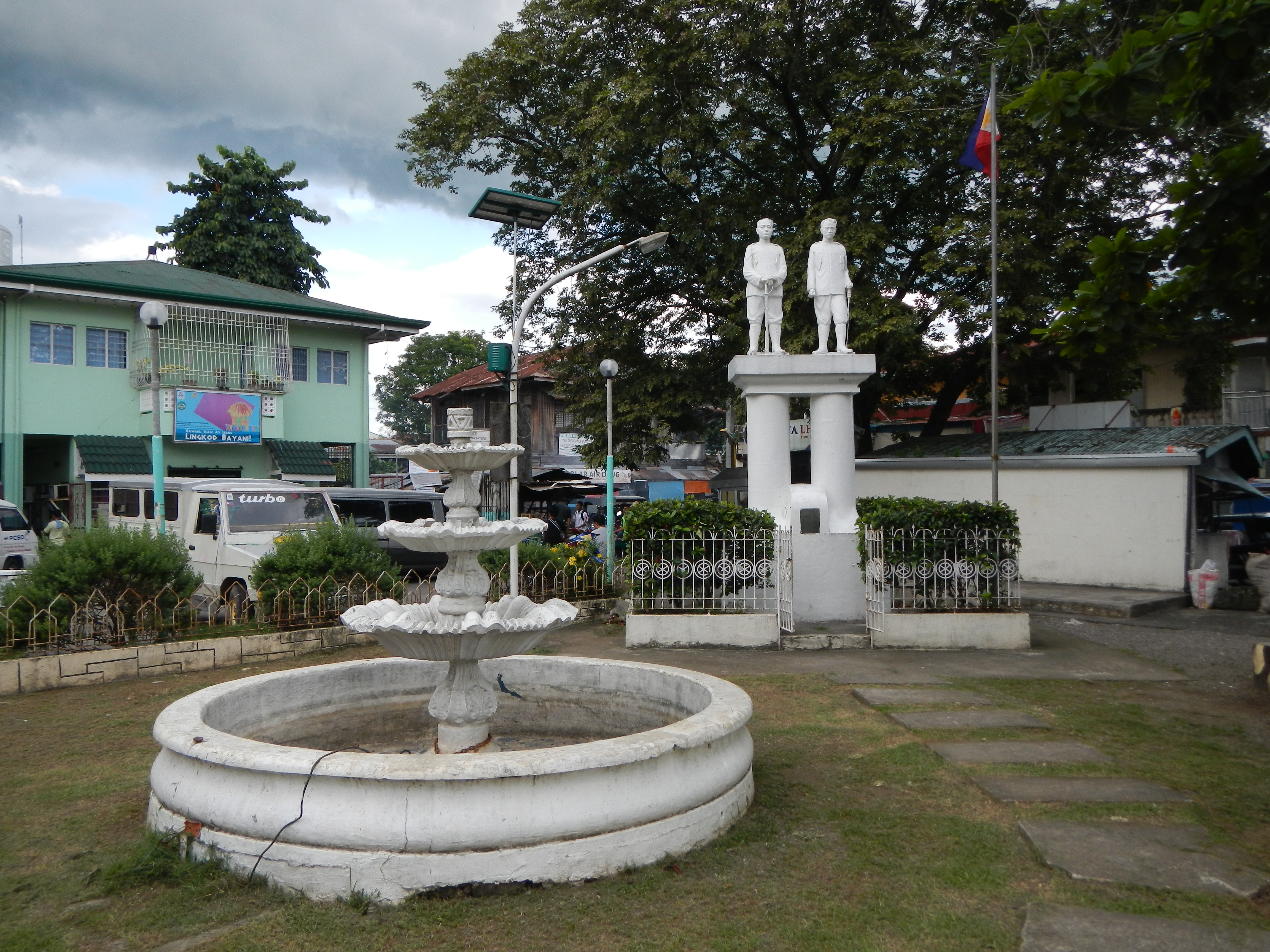 Maragondon Municipal Hall [1] Coordinates: 14°16'26"N 120°44'7"E Maragondon, Cavite[2] The Municipality of Maragondon (Filipino: Bayan ng Maragondon) is a third class municipality in the province of Cavite, Philippines. [3] Coordinates: 14°13'39"N 120°42'52"E